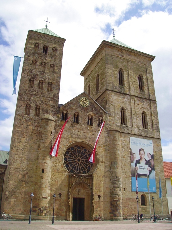 The St. Peter's Cathedral in Osnabrück with a poster for the German Catholics Day